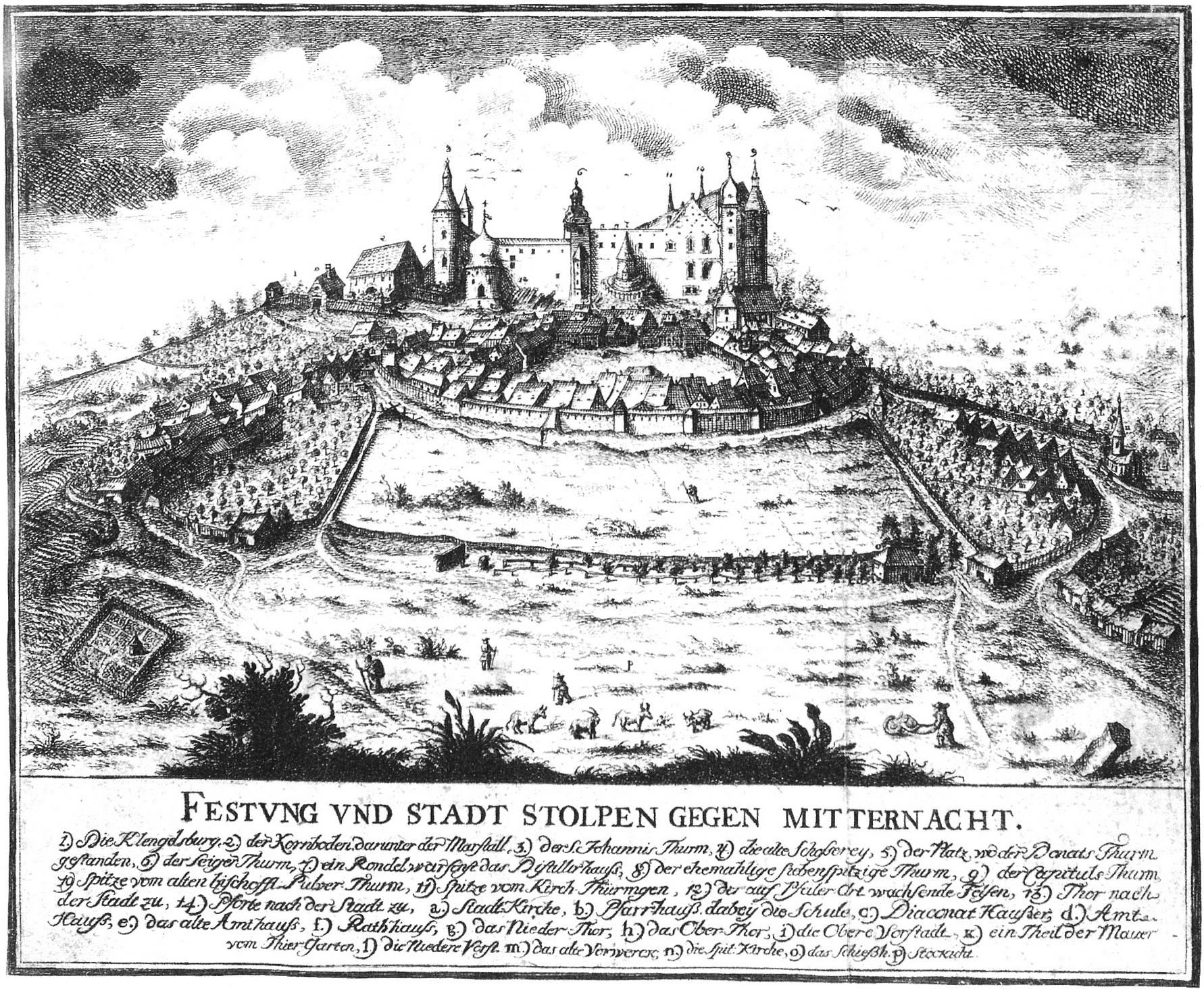 Castle Stoplen, Saxony, Germany, from C. G. Nestler (1730-1780)